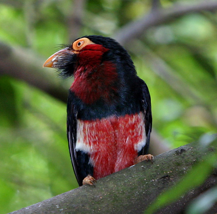 Lybius dubius - Bearded Barbet